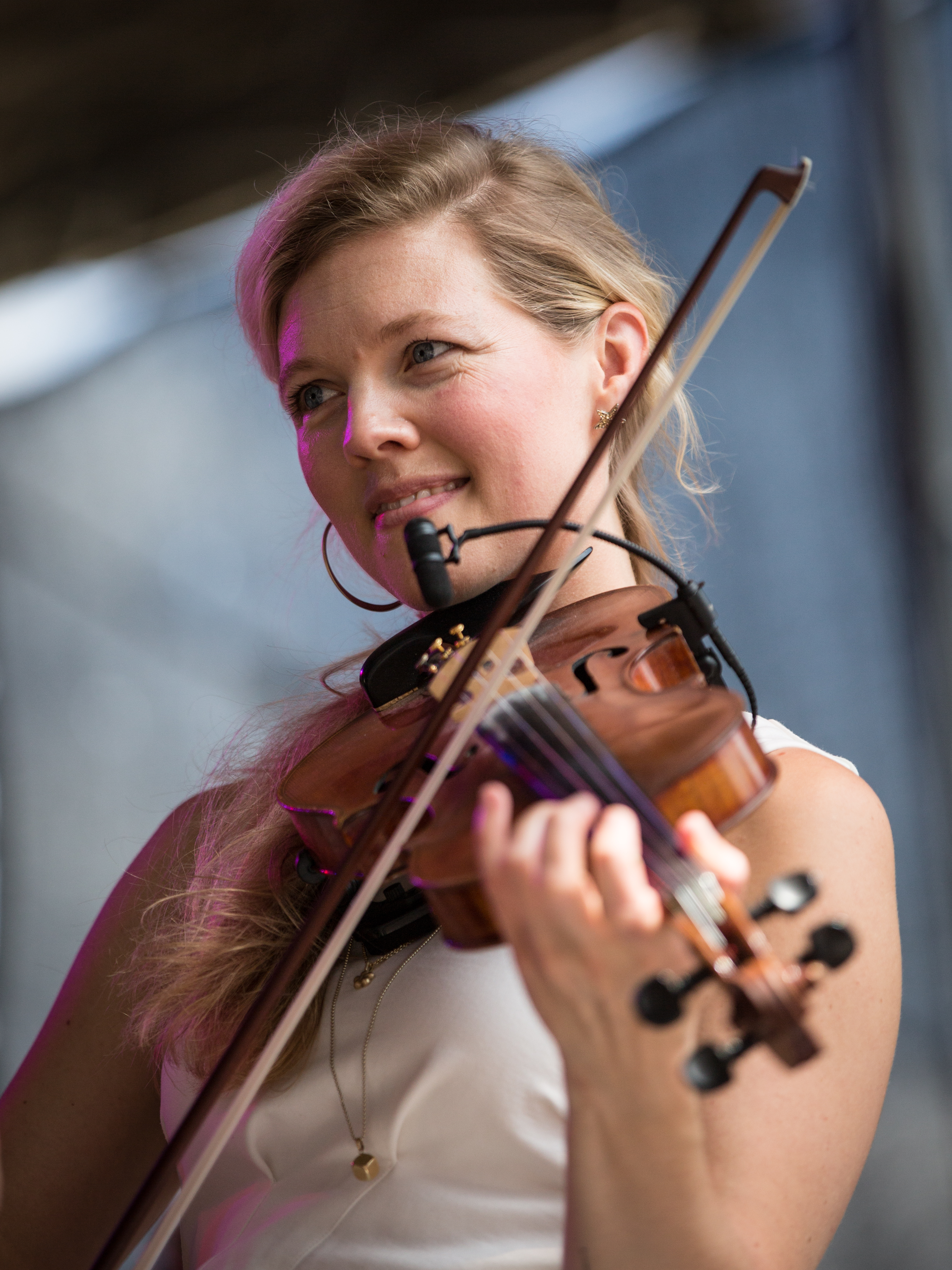 Danish folk musician Helene Blum at the Rudolstadt-Festival 2016